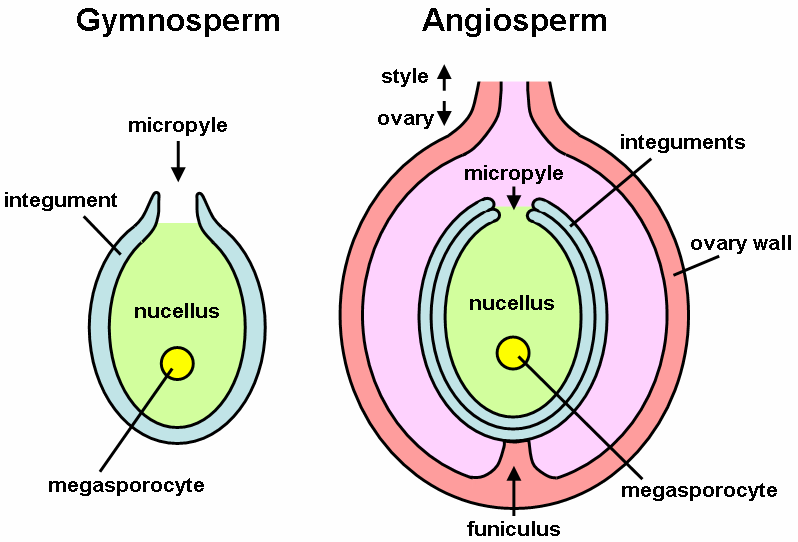 Schematic representation of plant ovules: Gymnosperm ovule on left, Angiosperm ovule on right. (created using Powerpoint)